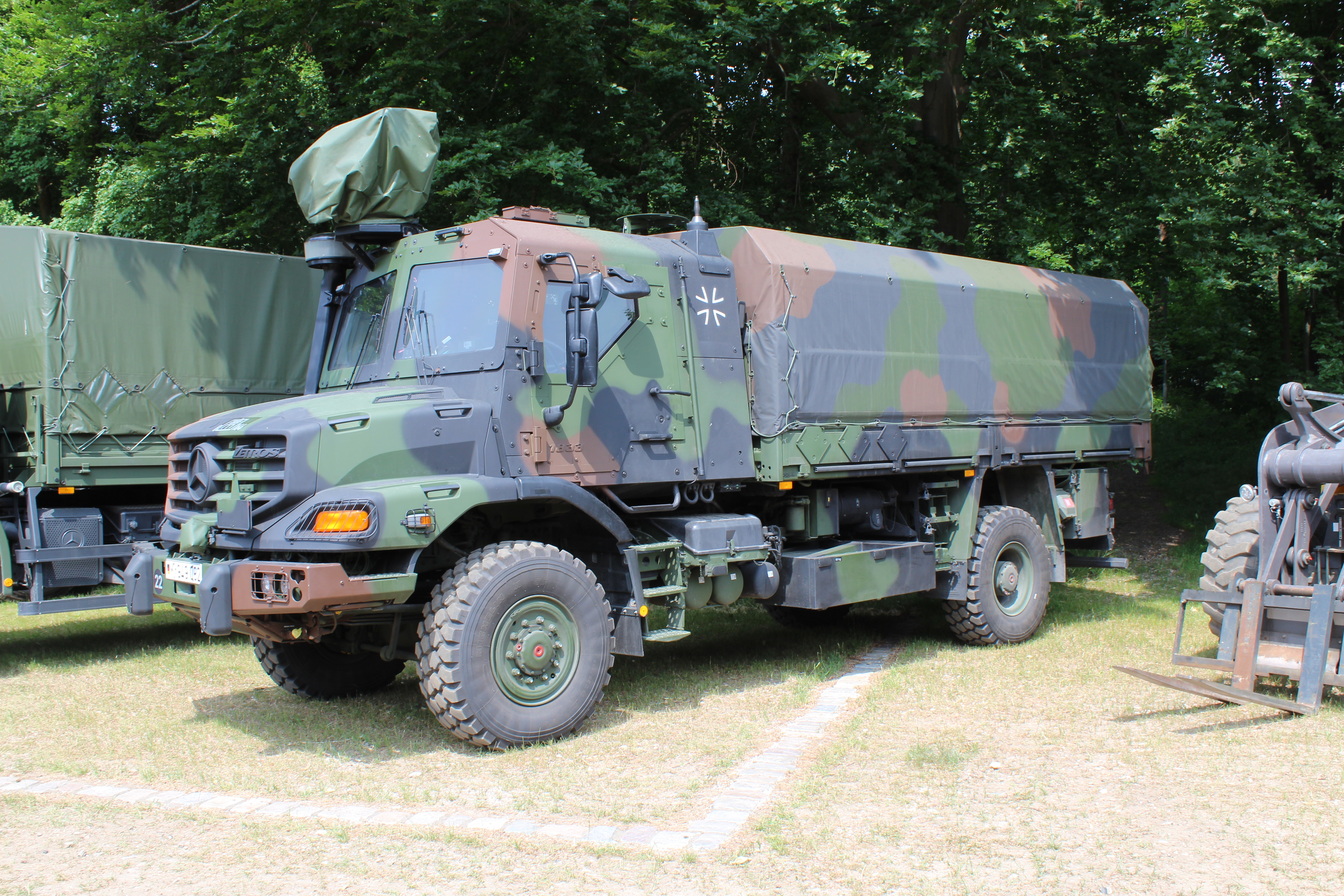 Mercedes-Benz Zetros (armoured) of the German Army Heavy Engineers Regt. 164 at Day of Bundeswehr 2018 in Flensburg.